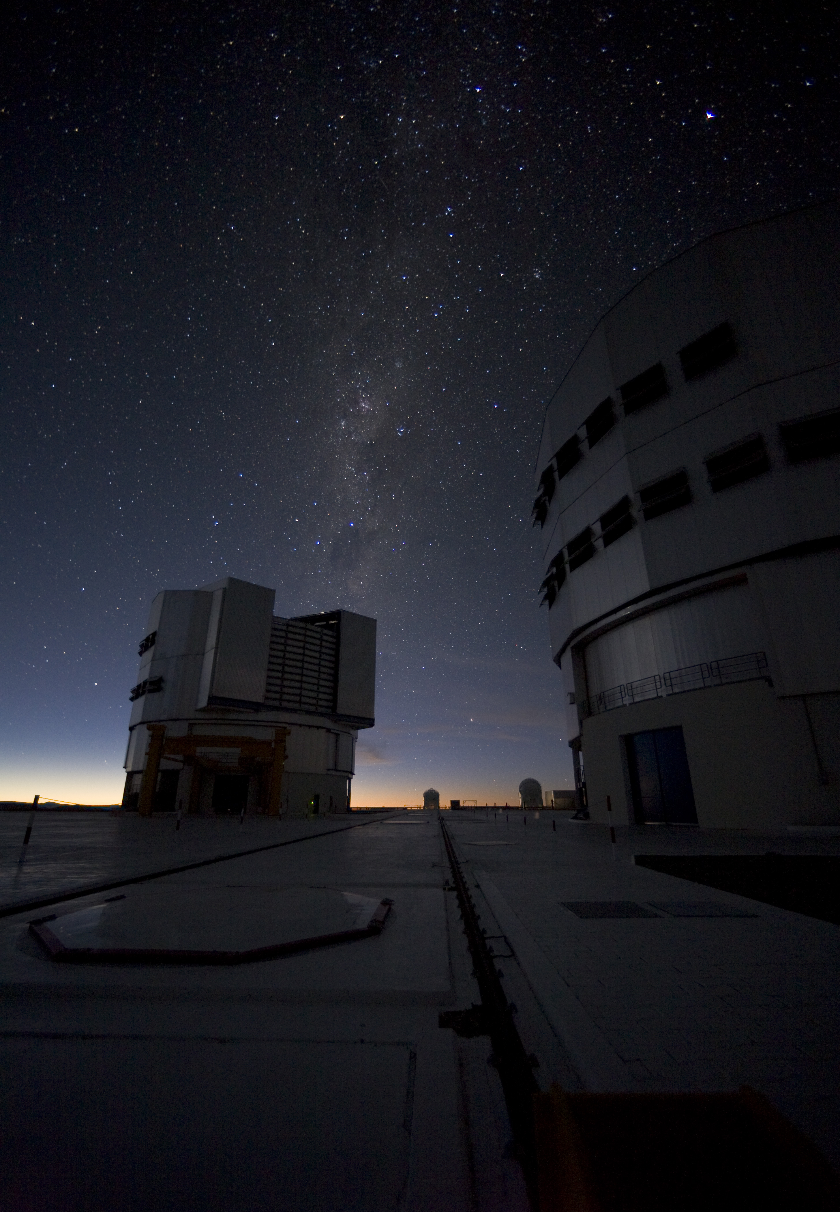 This picture, obtained in January 2007, was taken on the VLT platform about two hours before sunrise. The Milky Way is still well visible, while the first hint of daylight is illuminating the eastern horizon.